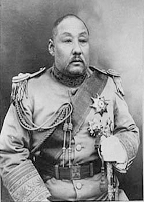 Zheng Shiqi郑士琦, Warlord in Republican China, ruler of Shandong province(1873-1935)